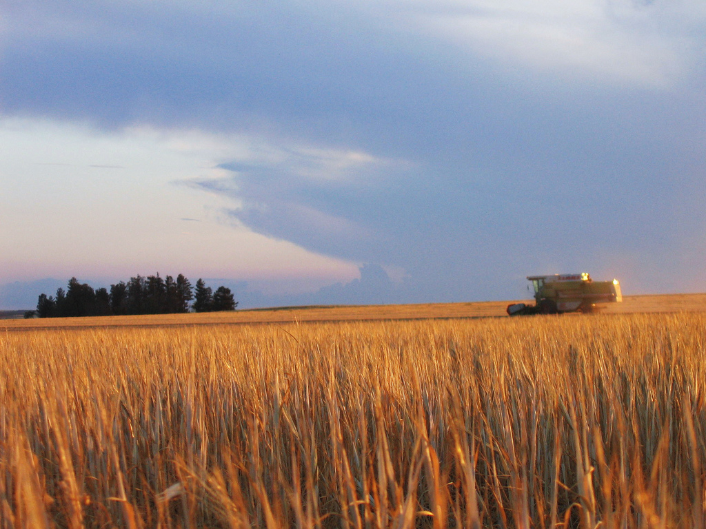 Barley harvesting. This year's harvest is 10 times less then previous year because of global warming. Turkyurdu Village, Gaziantep -Turkey